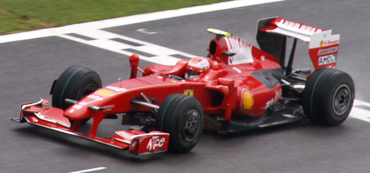 Kimi Räikkönen driving for Scuderia Ferrari at the 2009 Belgian Grand Prix.